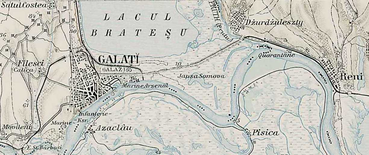 This file has been extracted from another file: Galati - 46-45.jpg and it illustrates the area of Galati - Reni in 1901.